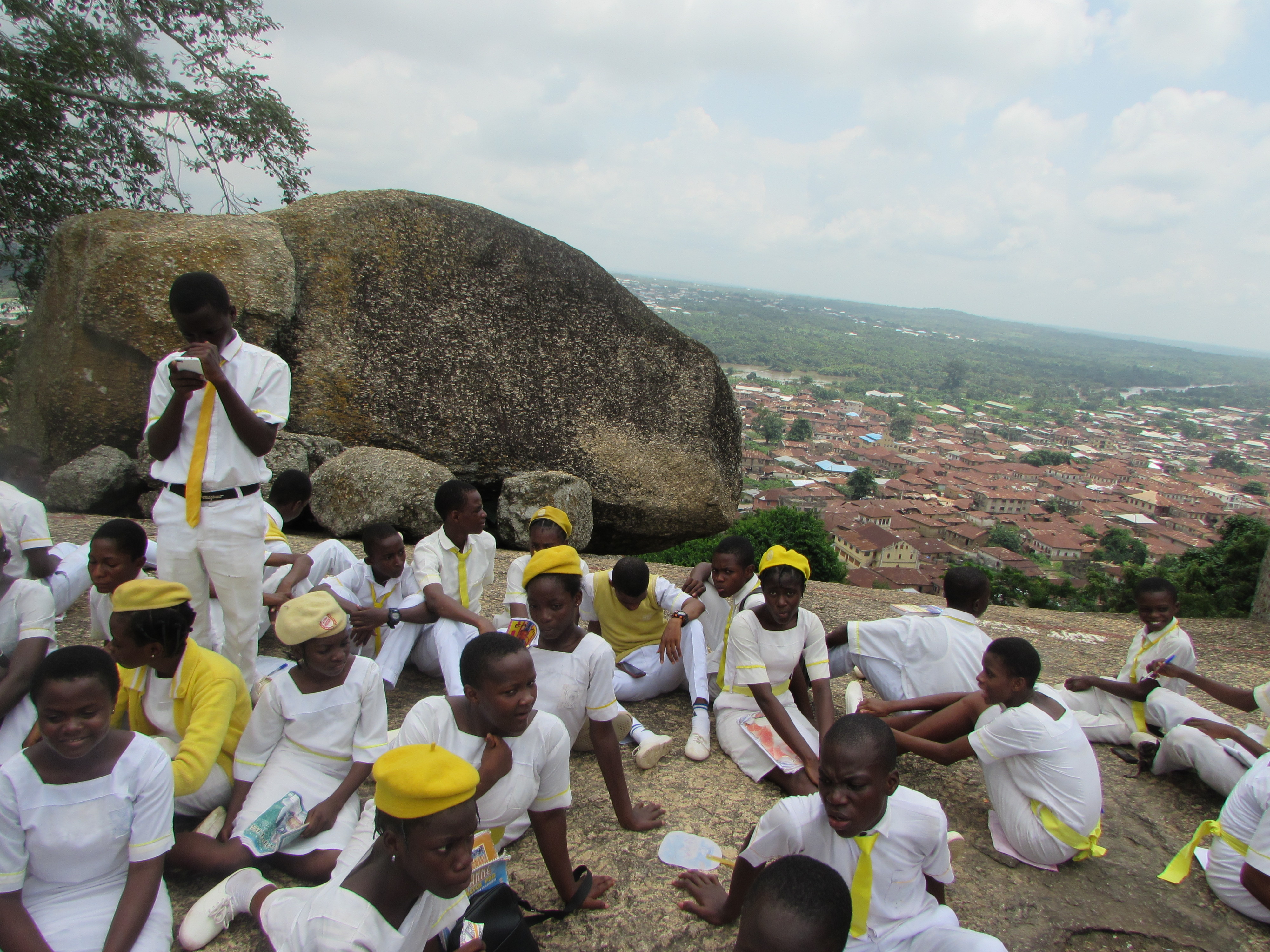 students of the African Church Grammar School Mission on excursion to the Olumo Rock